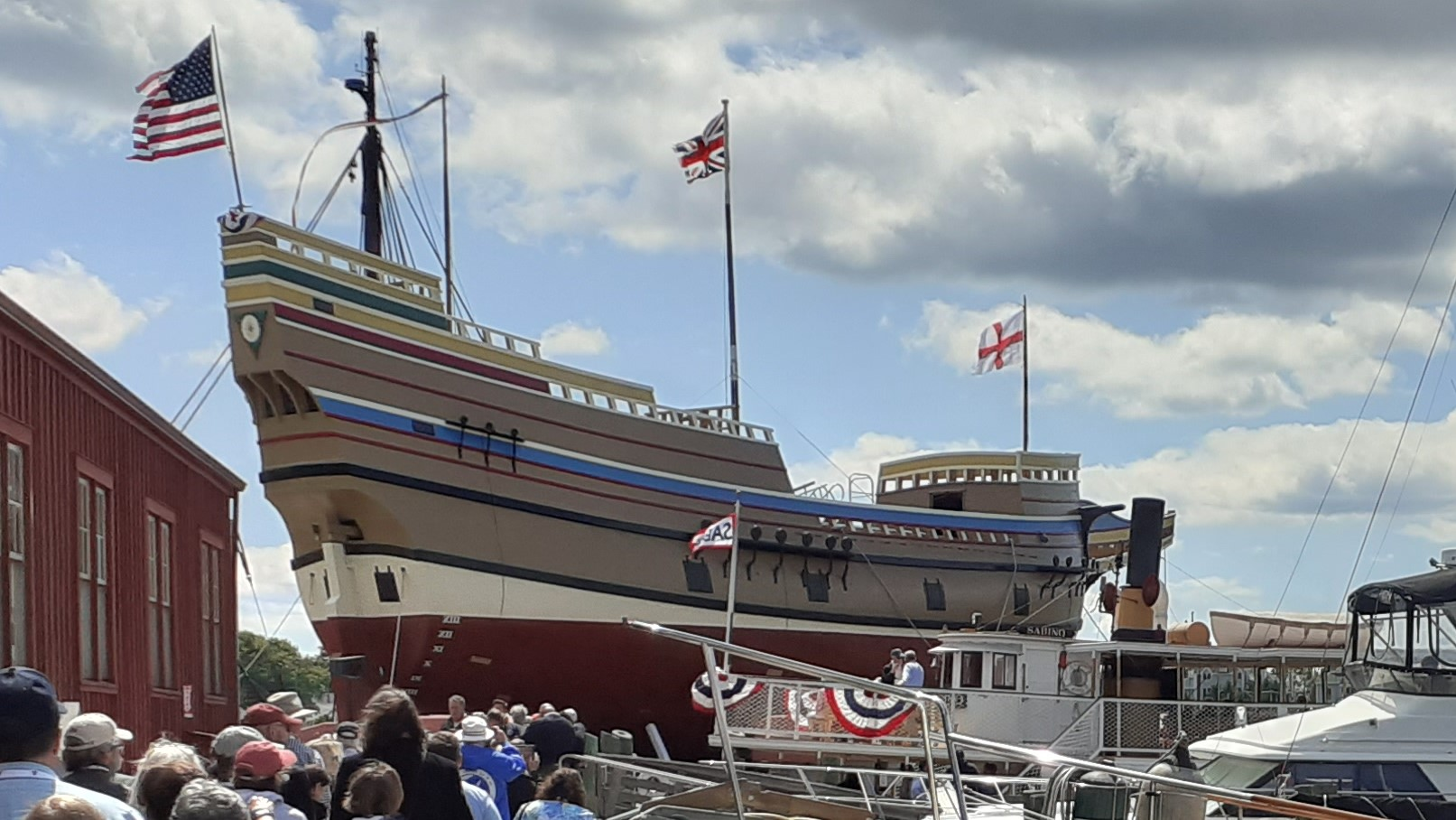 Mayflower II, a replica of the original 17th-century Mayflower built in 1956, after refurbishment at the Mystic Shipyard in Connecticut. This picture was taken just prior to the ship's relaunch.